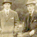 Kurt and Alfred Brenner, 1924